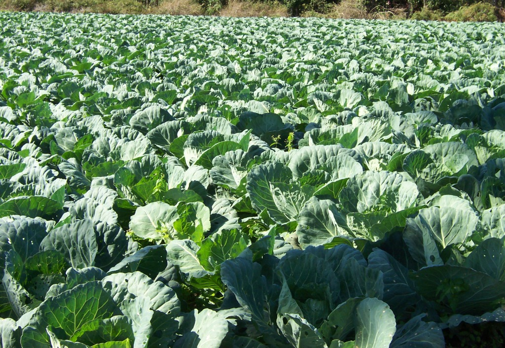 Cabbage (Brassica olarecea) - field at La Réunion